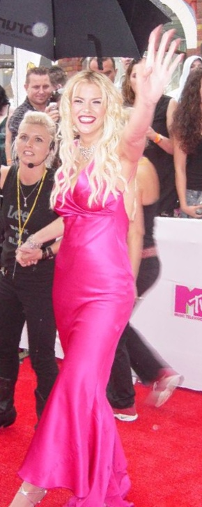 American actress Anna Nicole Smith on the red carpet for 2005 MTV Video Music Awards